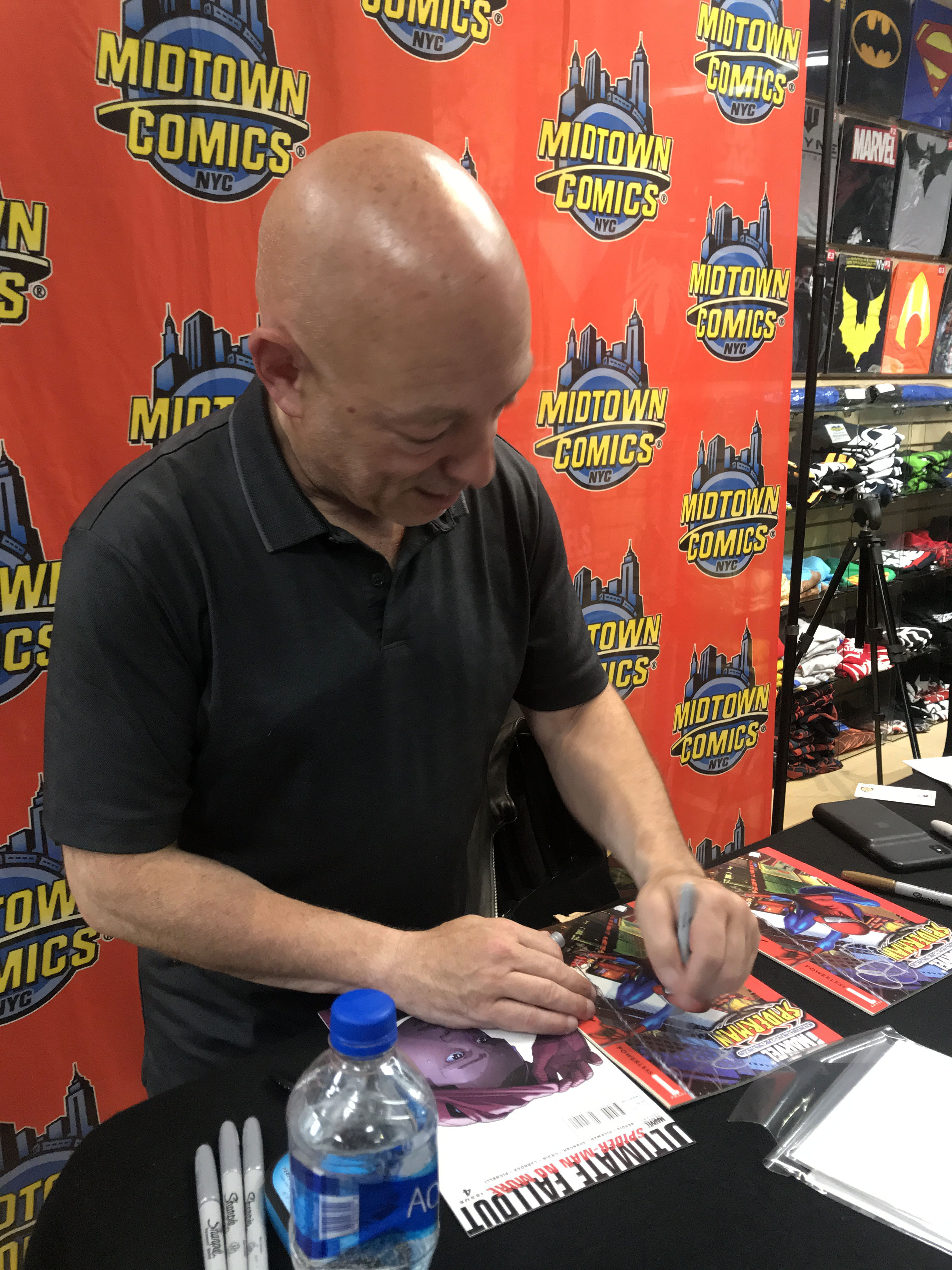 Comics writer Brian Michael Bendis at a July 24, 2019 open book signing at Midtown Comics Downtown in Lower Manhattan. In the photo, Bendis is signing copies of Ultimate Spider-Man #1, which features the first-ever appearance of the Ultimate Marvel version of Peter Parker, and Ultimate Fallout #4, which features the first appearance of Miles Morales, a character he co-created. This photo was created by Luigi Novi. It is not in the public domain, and use of this file outside of the licensing terms is a copyright violation.